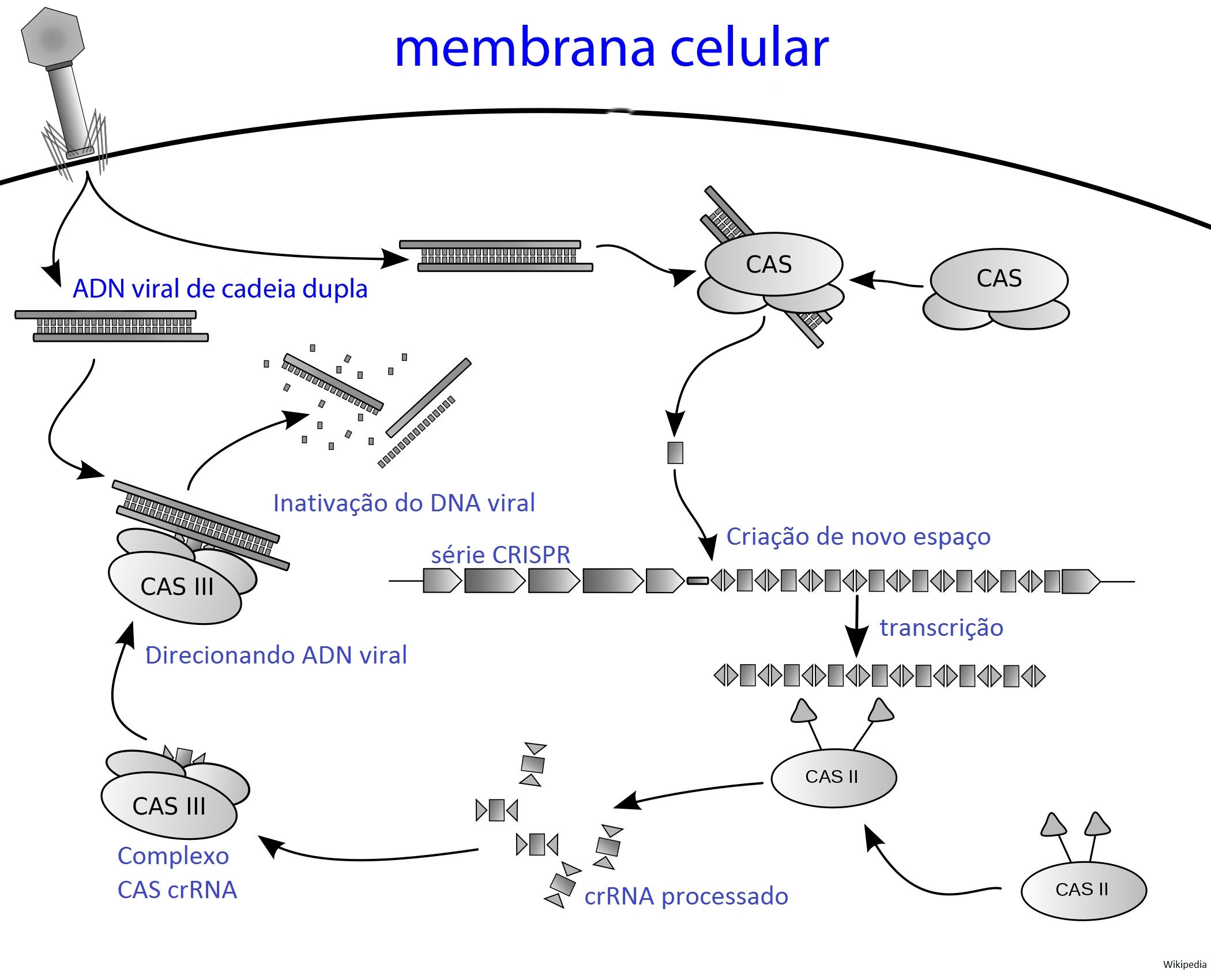 Diagram of the possible mechanism for CRISPR (IN PORTUGUESE)